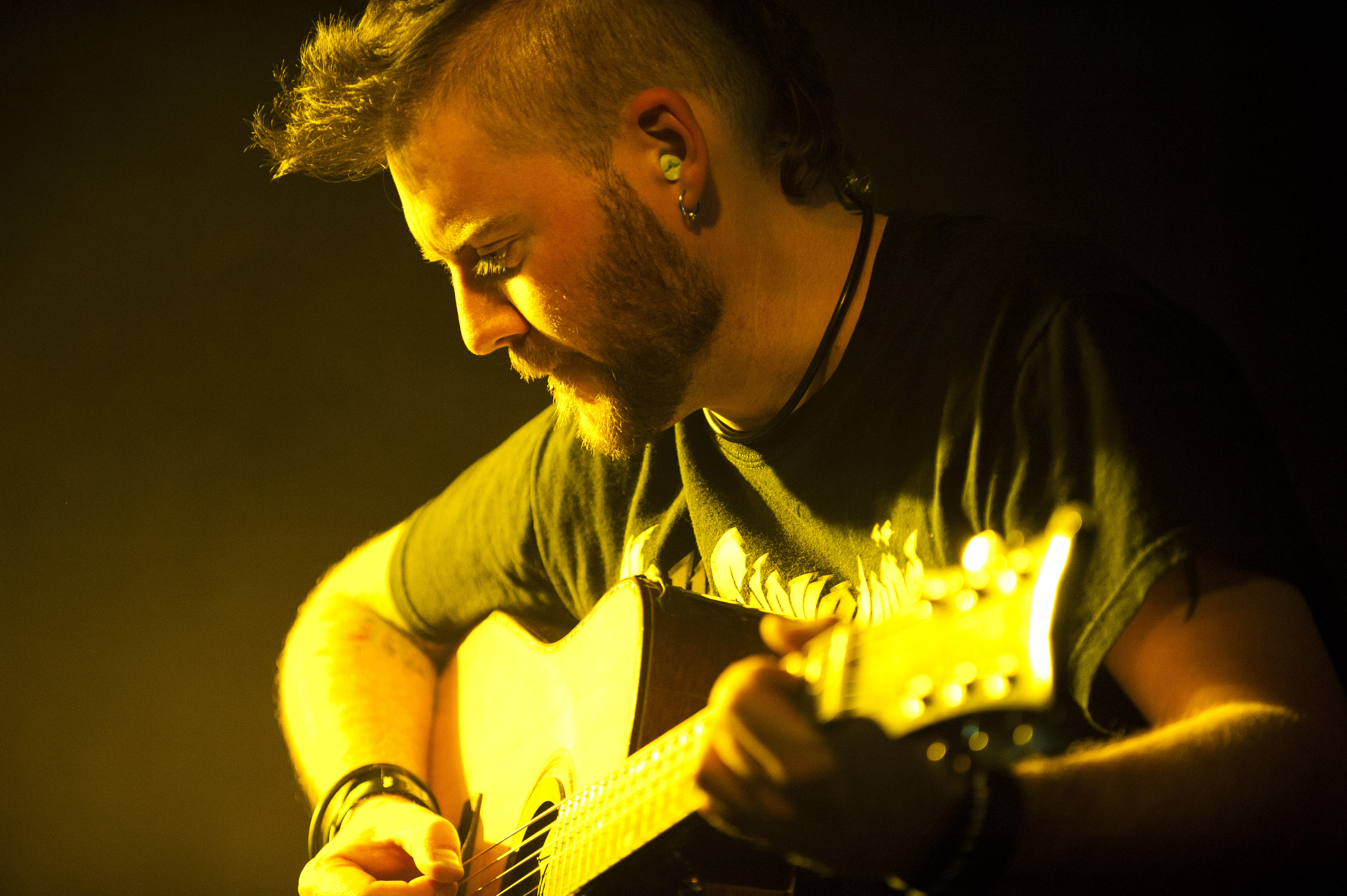 Dale Stewart, bassist for the band Seether, performs for Team Incirlik March 19, 2012, at the Club Complex at Incirlik Air Base, Turkey. The hard-rock band visited Incirlik as part of a USO tour through Italy and Turkey.